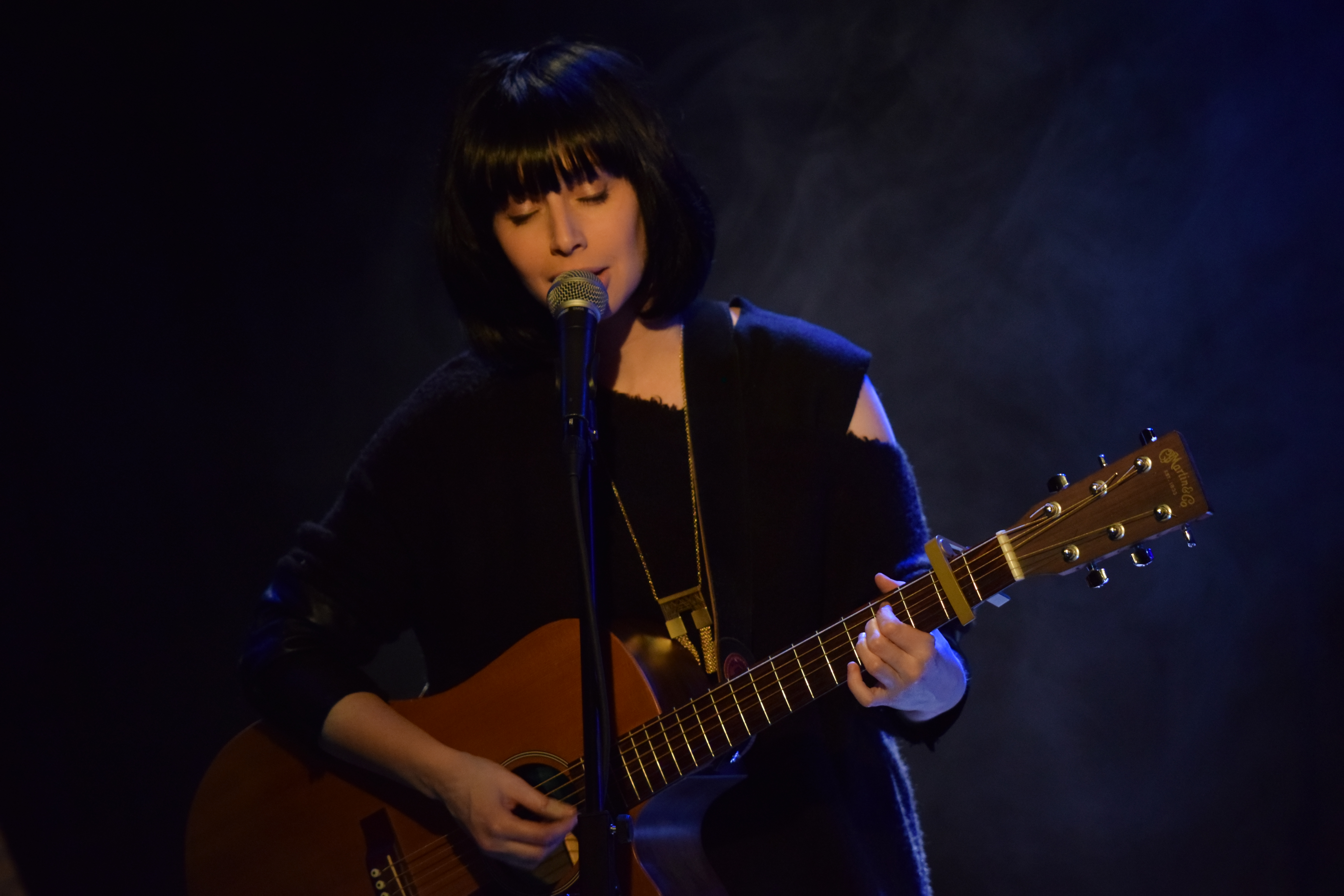 Aya Korem - Israeli singer